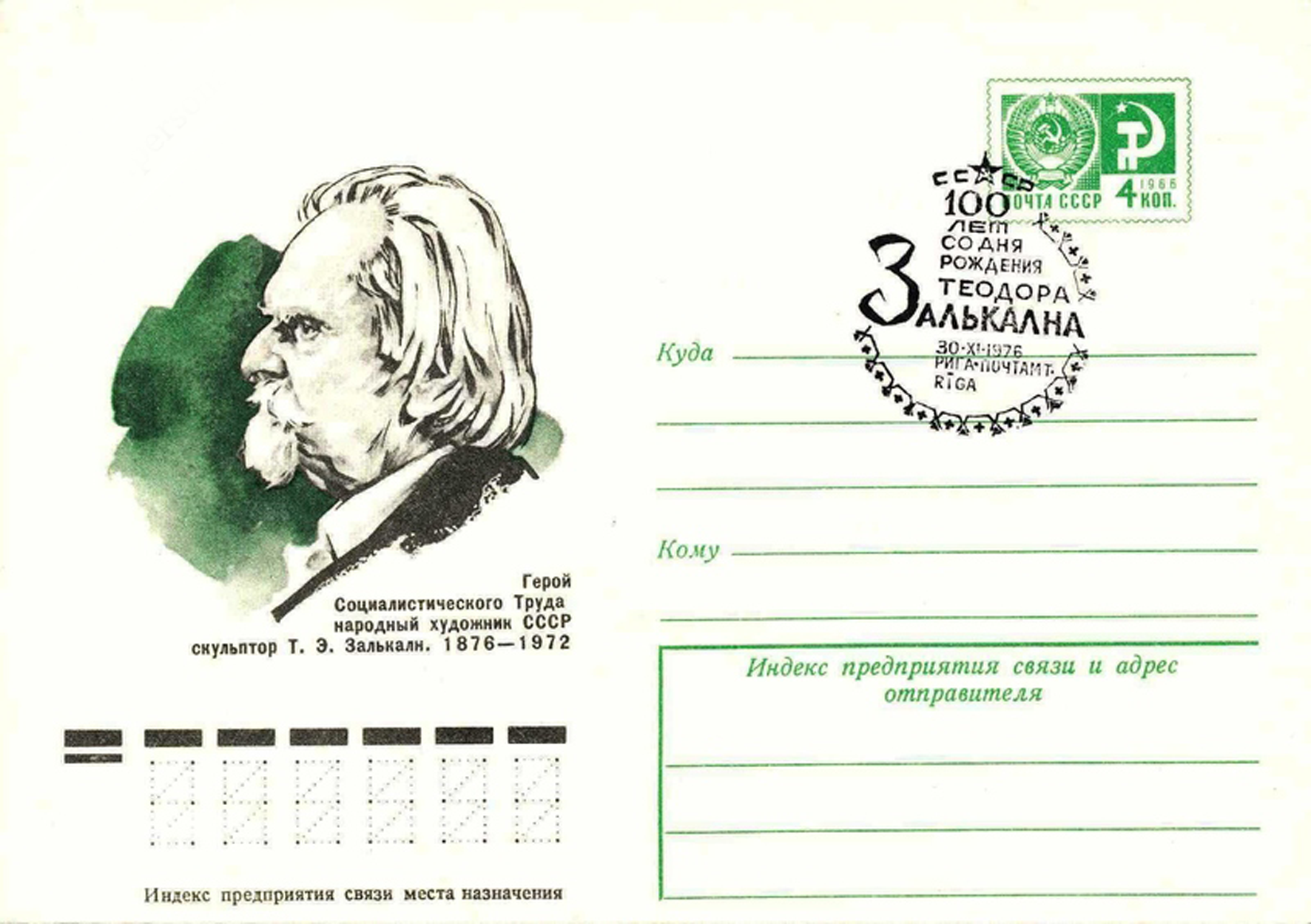 Postal cover of the Soviet Union. Theodore Zalkaln. 1976